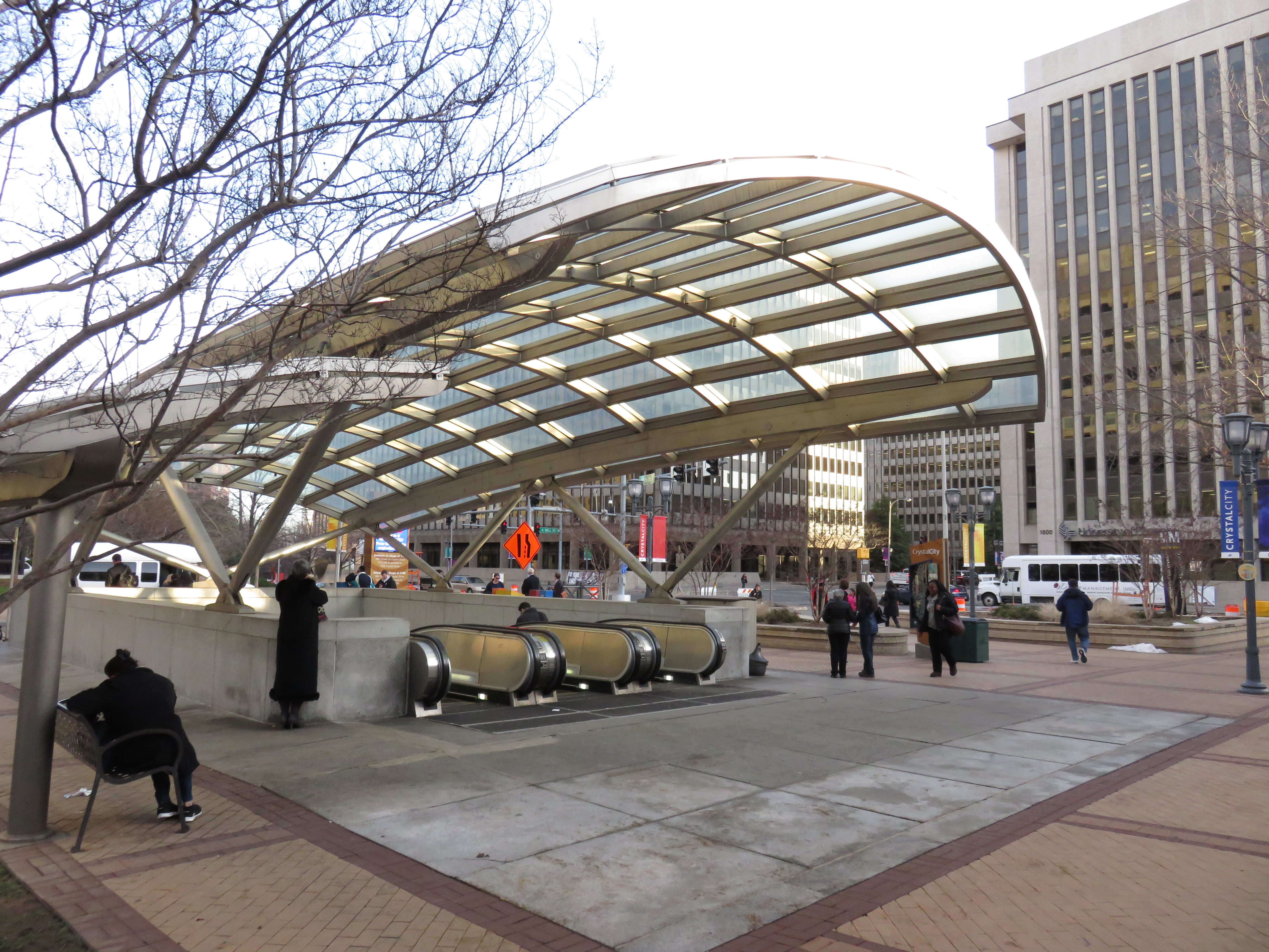 Headhouse of Crystal City Metro station in Crystal City, Arlington, Virginia in February 2016